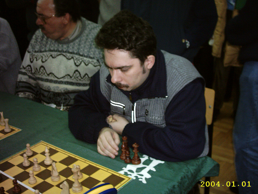 GM Konstantin Chernyshov, Russia, Cracow 2004